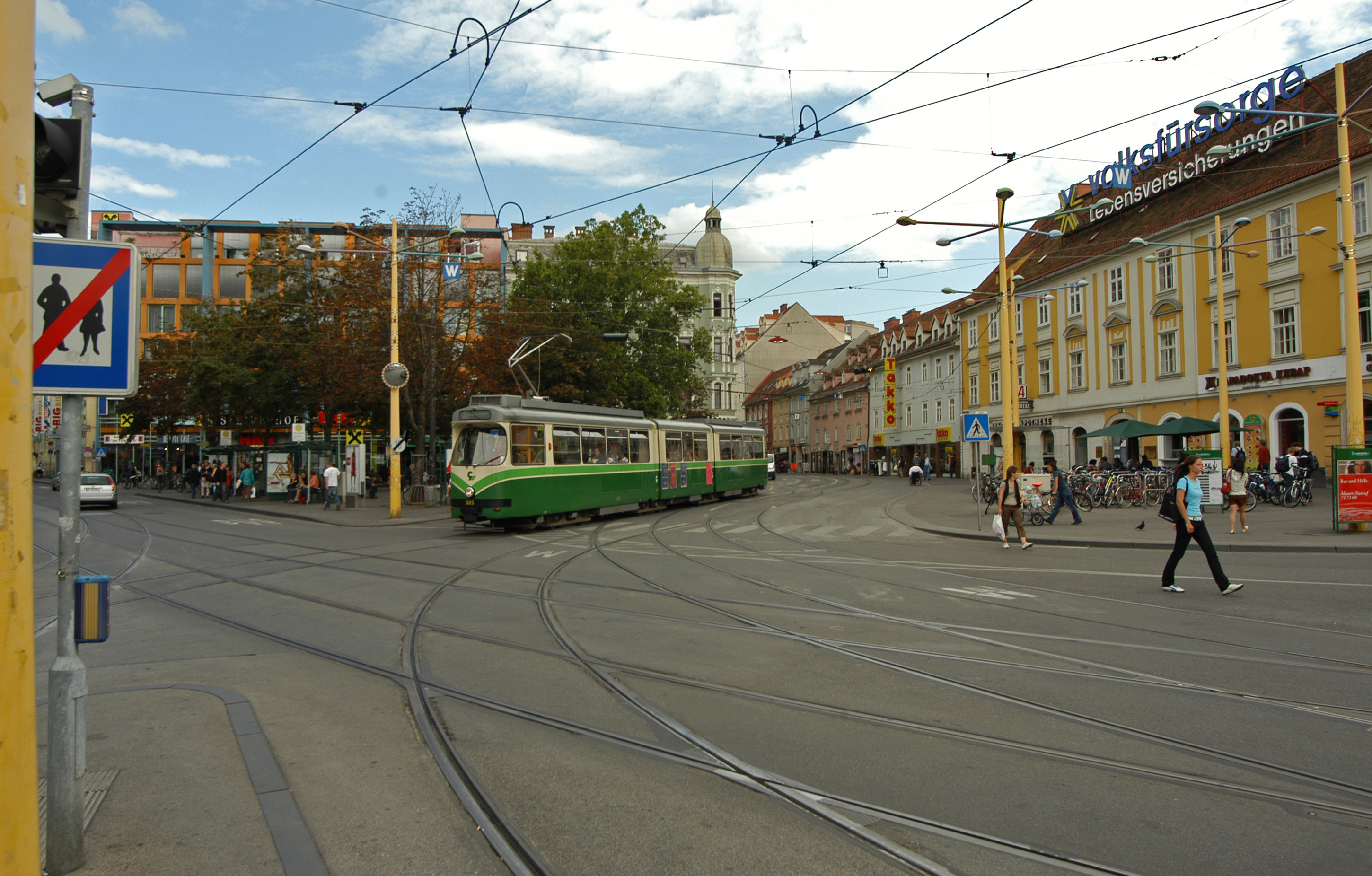 Please report references to kulacgmx.at.